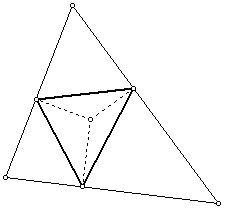 The pedal triangle of a point.